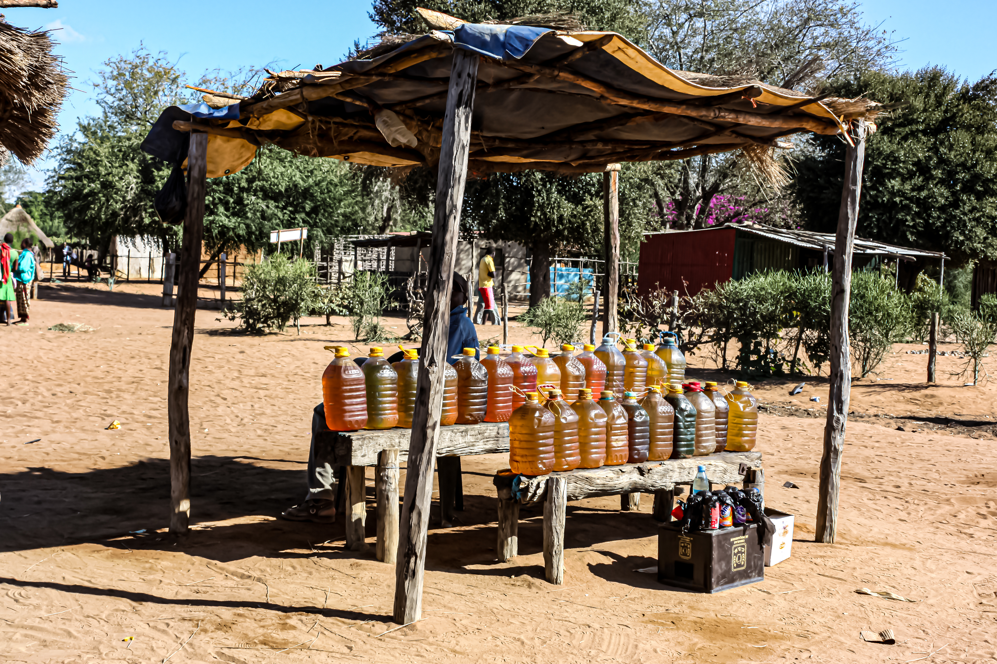 This is an image with the theme "Africa on the Move or Transport" from: Mozambique